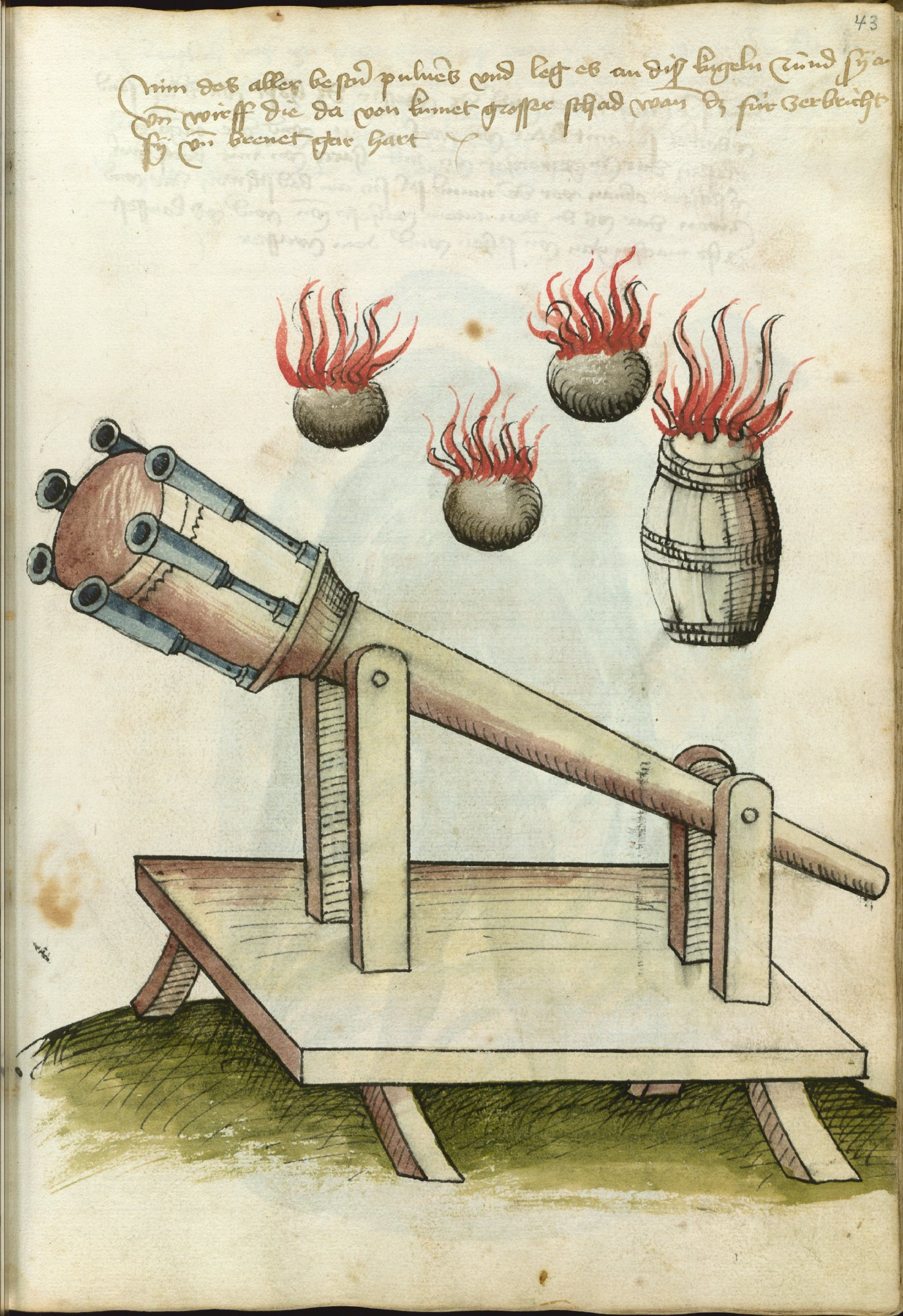 The Ms.Thott.290.2º is a fencing manual written in 1459 by Hans Talhoffer for his own personal reference and illustrated by Michel Rotwyler.